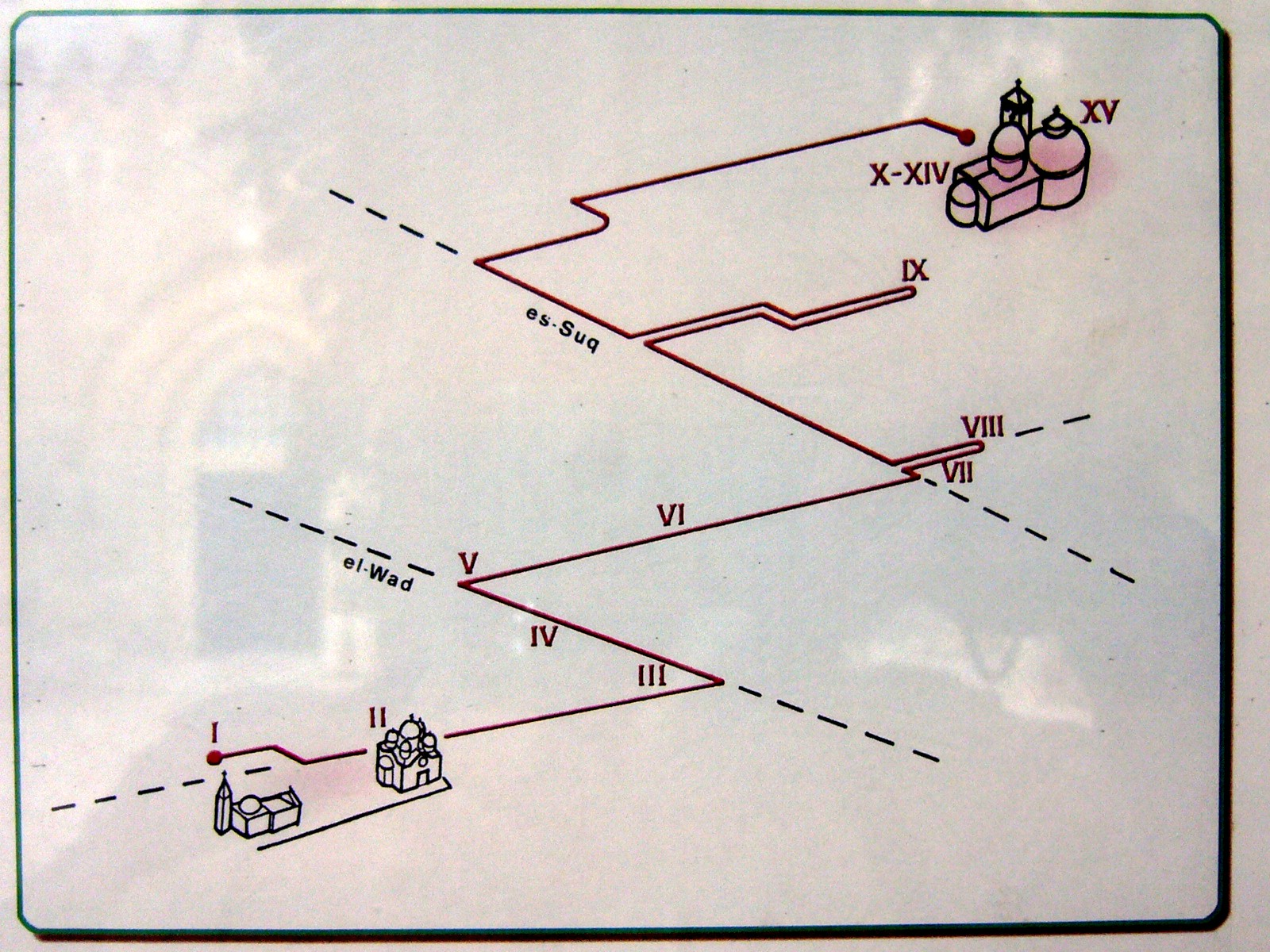 Old Jerusalem - The map of Stations of the Cross in Jerusalem - Plan via crucis near Church of the Flagellation